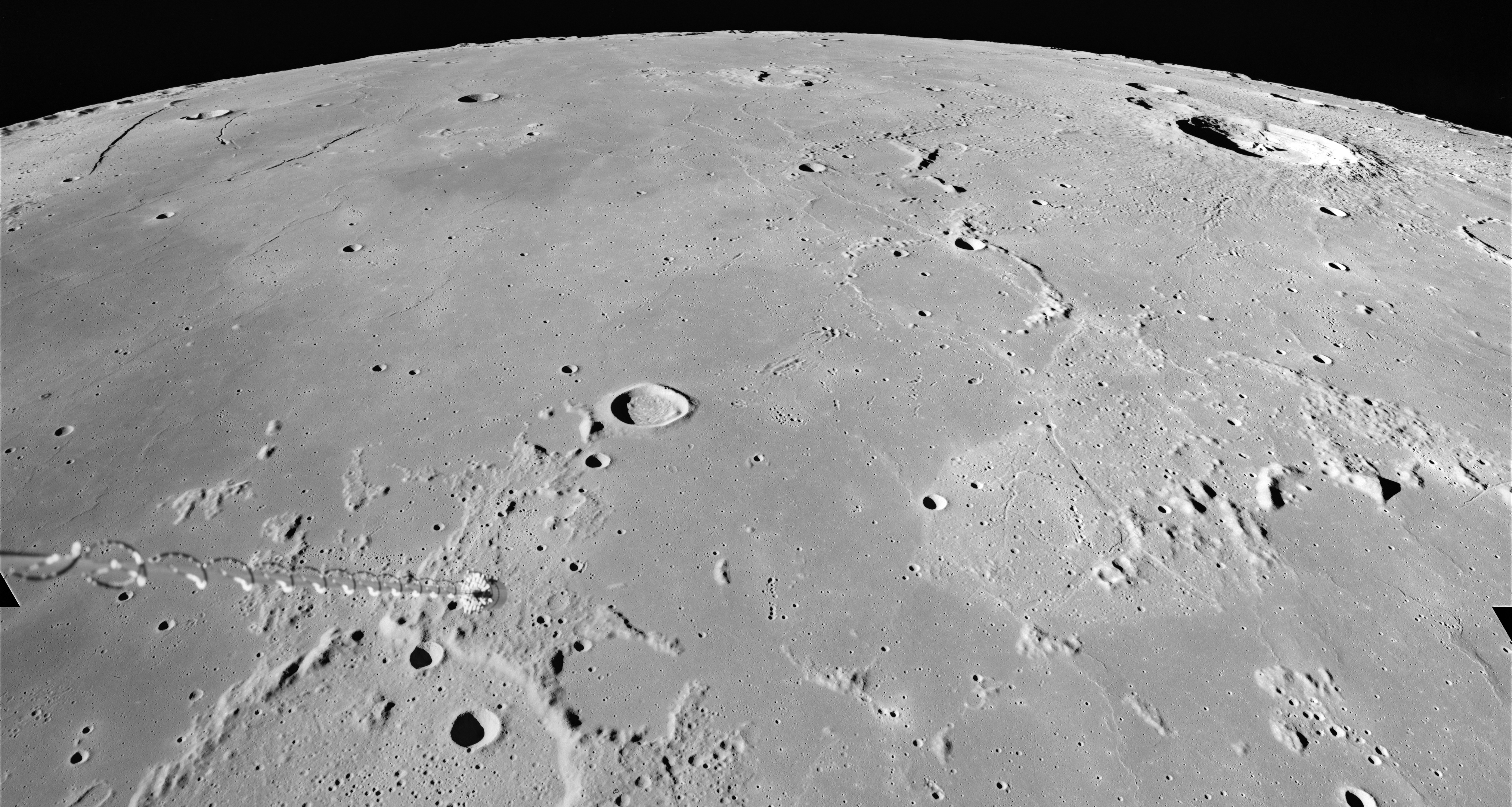 View of northern Mare Nubium from Apollo 16. Guericke is in lower left foreground. Birt and the Rupes Recta are in upper left. Wolf is near central horizon, and Bullialdus is in upper right. Pitatus is visible edge-on at the central horizon.